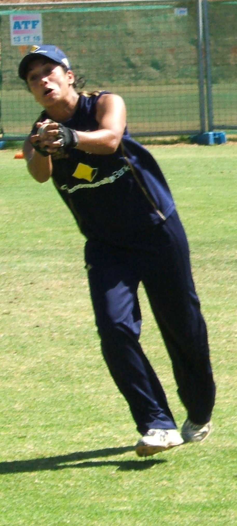 Named person engaging in named action at Adelaide Oval nets/training ground